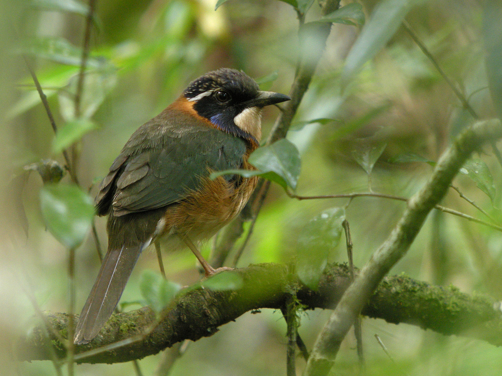 Pitta-like Ground-roller, Mantadia, Madagascar.jpg not that easy to take a picture of a Ground Roller in the dense understory of a rainforest... Swarowski 80 HD 30 X, Coolpix P5100 (Adapter DCB)